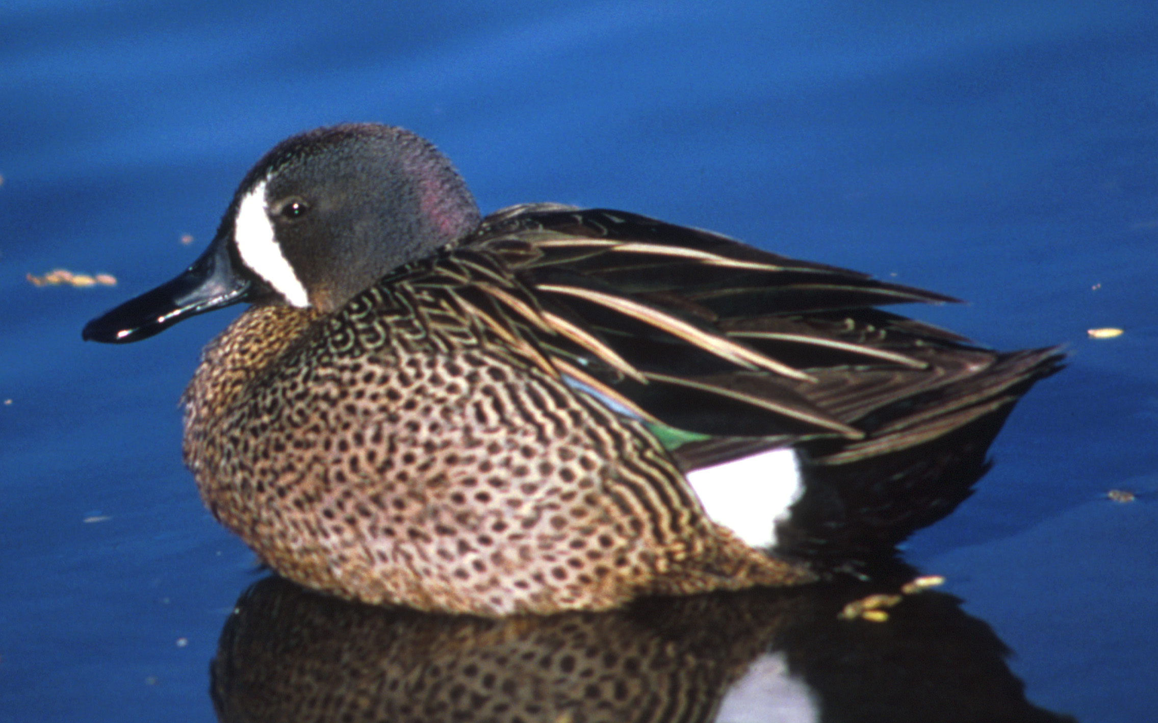 Blue-winged Teal - drake (Anas discors) at Desoto National Wildlife Refuge